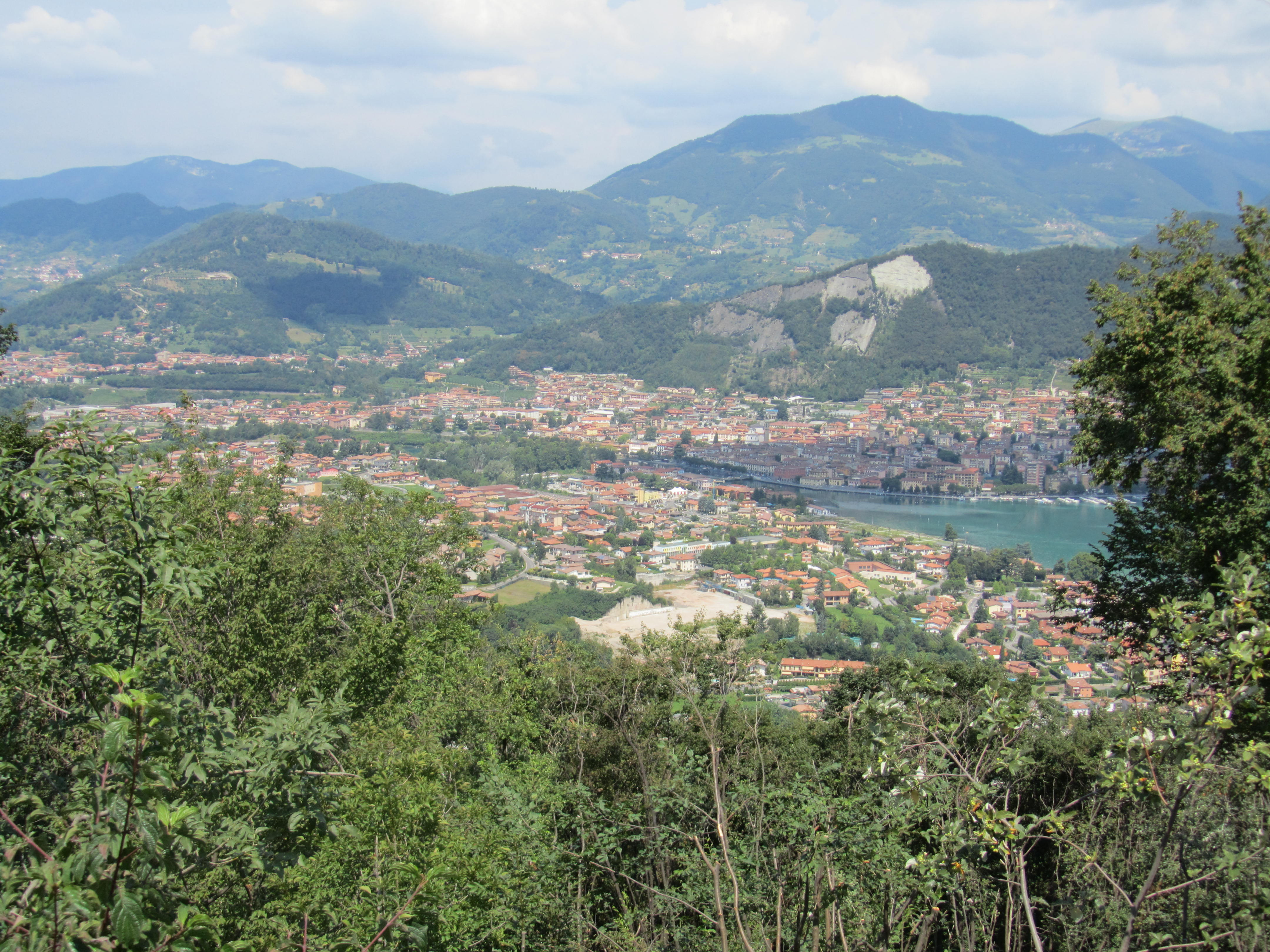 View over Paratico (in the foreground), the outward flow of River Oglio, and Sarnico (behind)